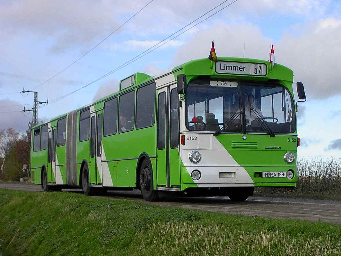 Mercedes-Benz O 305 G bus (#8152, reg. H-RA 199) in Hanover, Germany. üstra Hannoversche Verkehrsbetriebe AG operator.